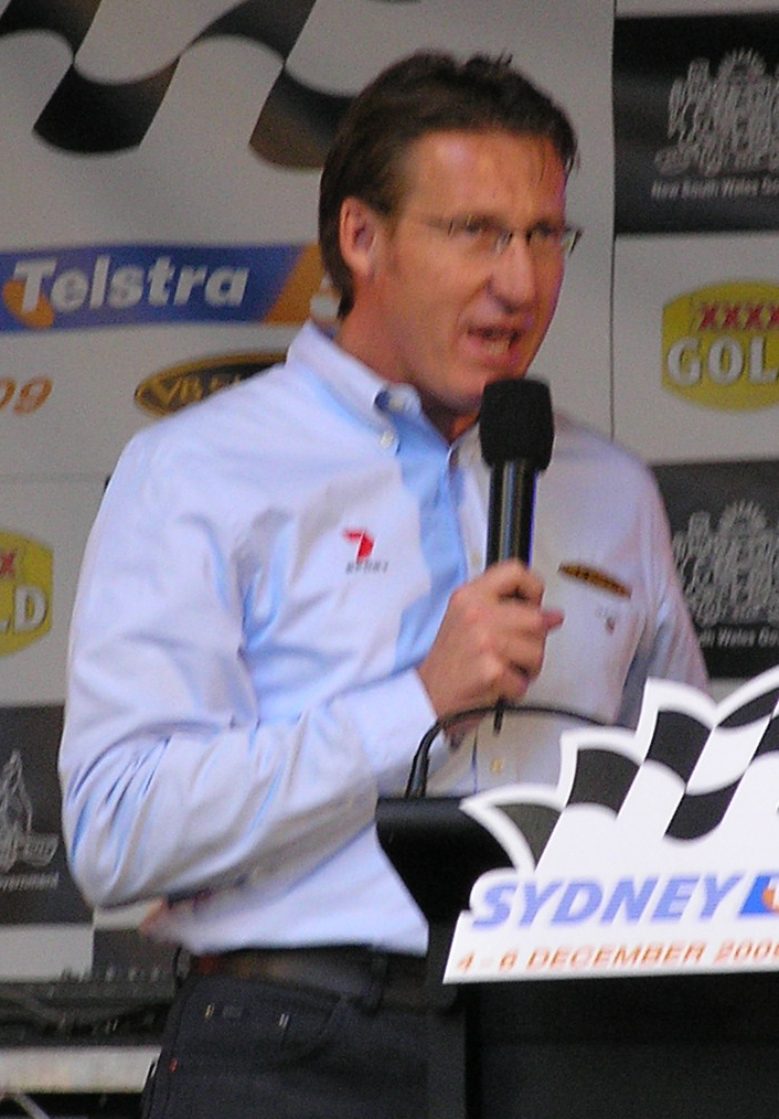 Mark Skaife speaking at the launch of the Sydney 500 V8 Supercar event in 2009.